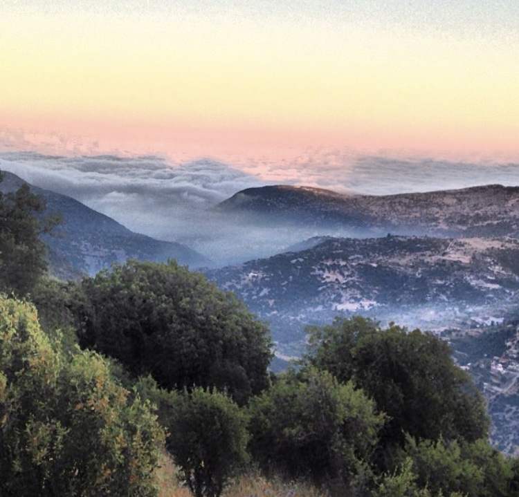 Author: LebaneseBebe (Lebanese female from south Lebanon), living in the U.S. On top of the Burkab tomb, overlooking other mountain peaks, around 7,000 feet above sea level . Burkab mountain peak, Mlikh, Al Rihan (mountain chain), Jezzine District, Nabatieh Governorate, South Lebanon, Lebanom Middle East, Mediterranean, بركاب، مليخ، جنوب لبنان